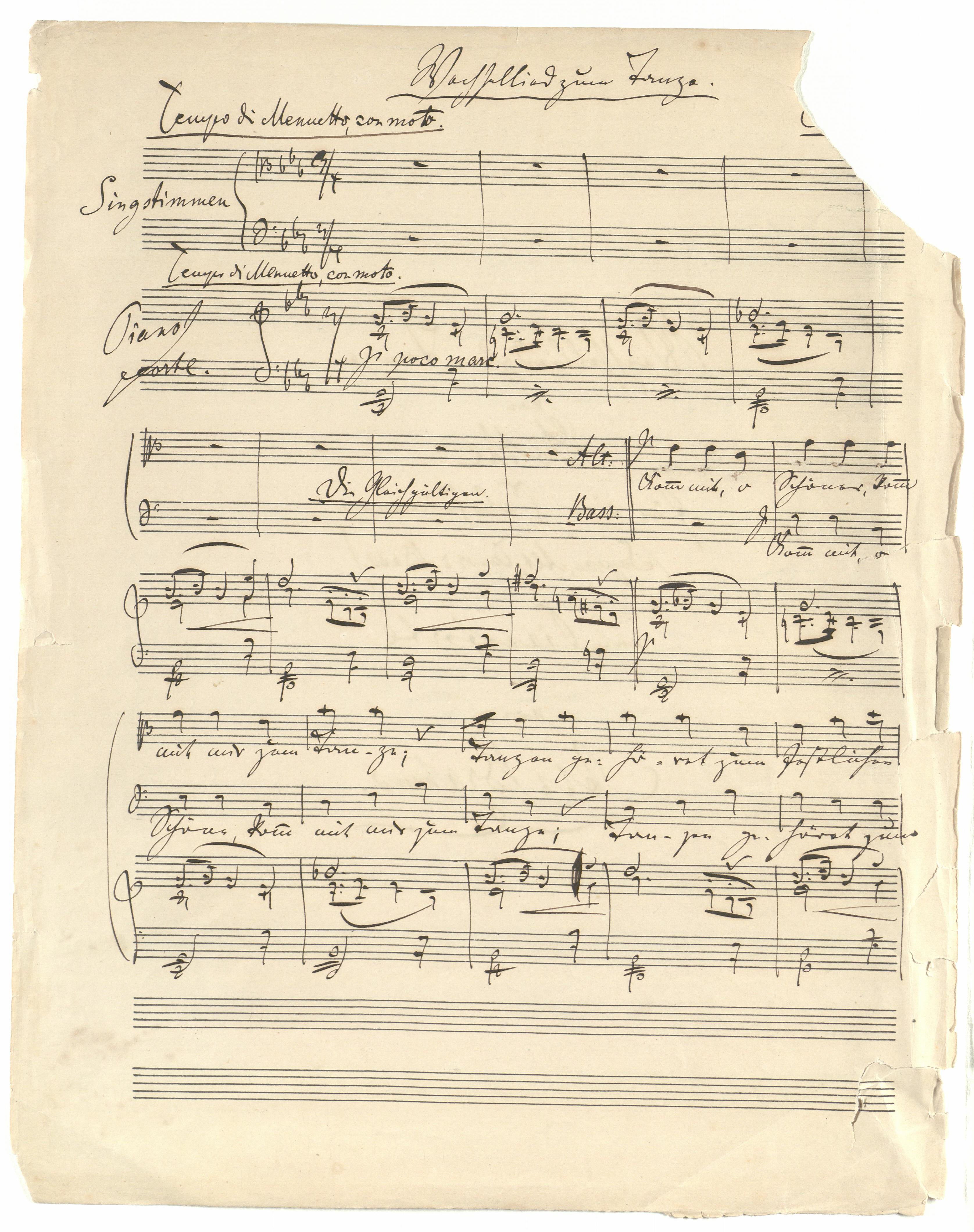 Autograph (Fragment) of Johannes Brahms: Wechsellied zum Tanze (op. 31, 1), found in the estate of deTheodor Avé-Lallemant, since 2010 in the Staats- und Universitätsbibliothek Hamburg